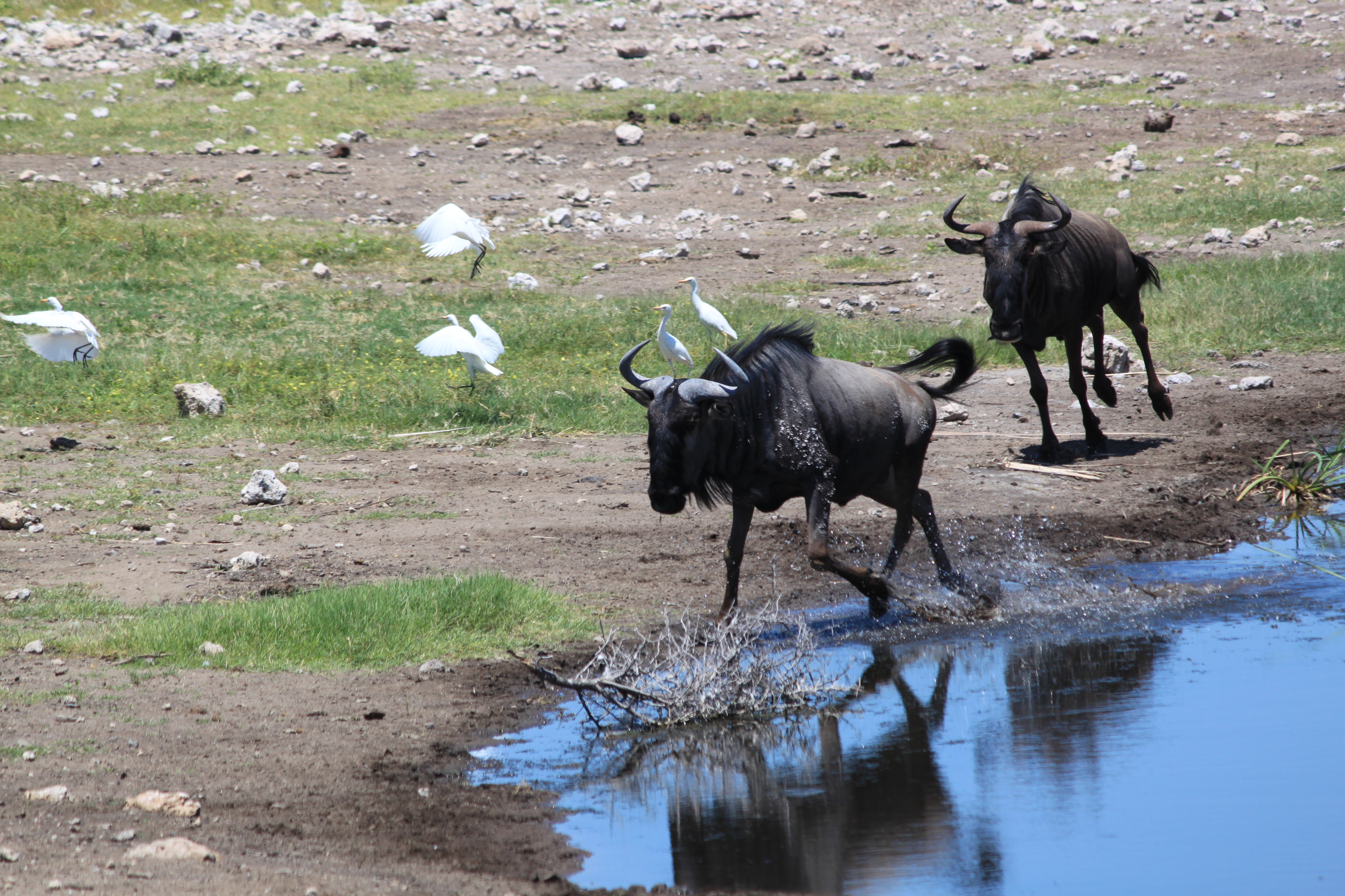 Blue Wildebeests at the waterhole in the Etosha National Park, Namibia